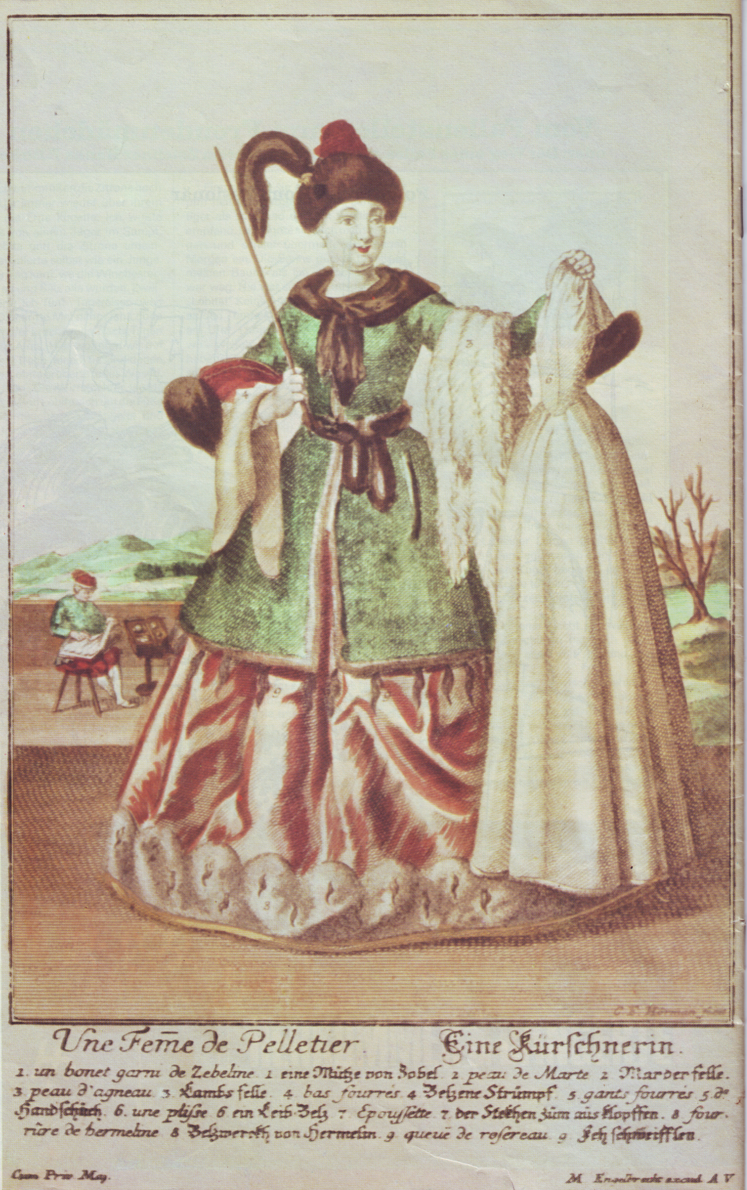 Female furrier